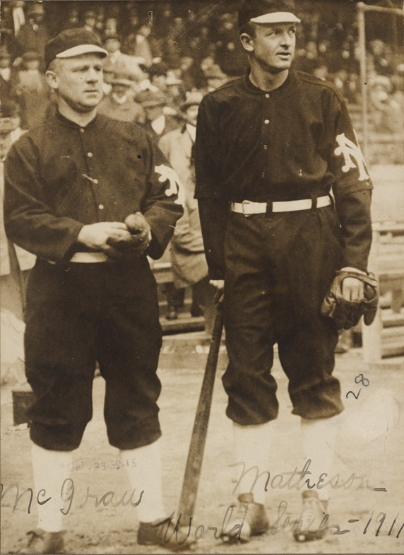 Accession No.: 06_06_000018 Title: John McGraw and Christy Mathewson, New York Giants, 1911 World Series Caption: McGraw - Mathewson, World Series - 1911 Creator: Luke, T.A. Date: 1911 Format: photograph Description: New York Giants Manager John McGraw and his pitching ace, Christy Mathewson in special black uniforms for the series. The Giants lost in six games to the Philadelphia Athletics. Luke was a photographer for the Boston Post. BPL Collection: McGreevey Collection BPL Department: Print Subject: Baseball--History World Series (Baseball) (1911) Philadelphia Athletics (Baseball team) New York Giants (Baseball team) Baseball players--1910-1920